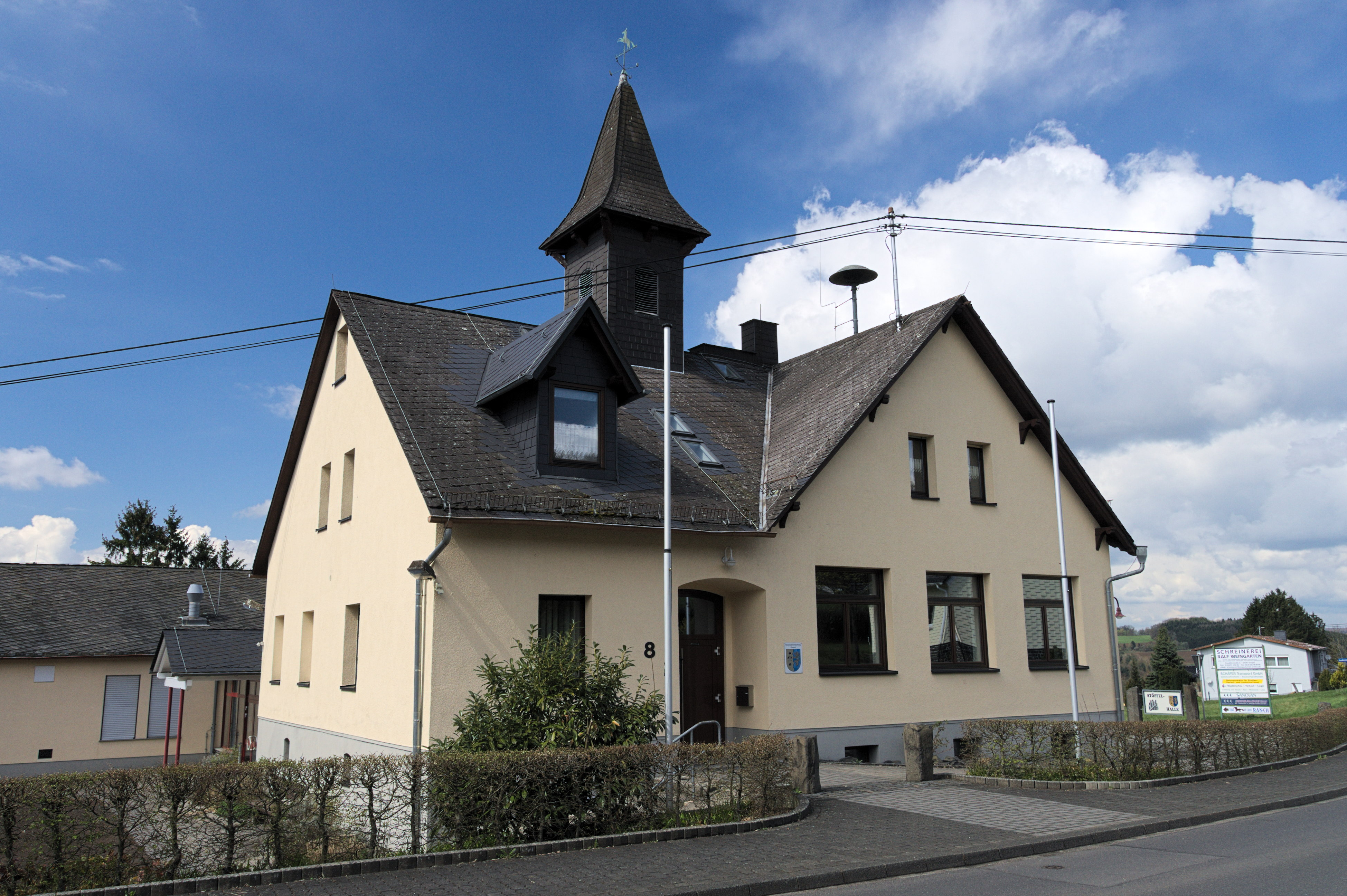 Mayor's office in Enspel, Westerwald, Germany